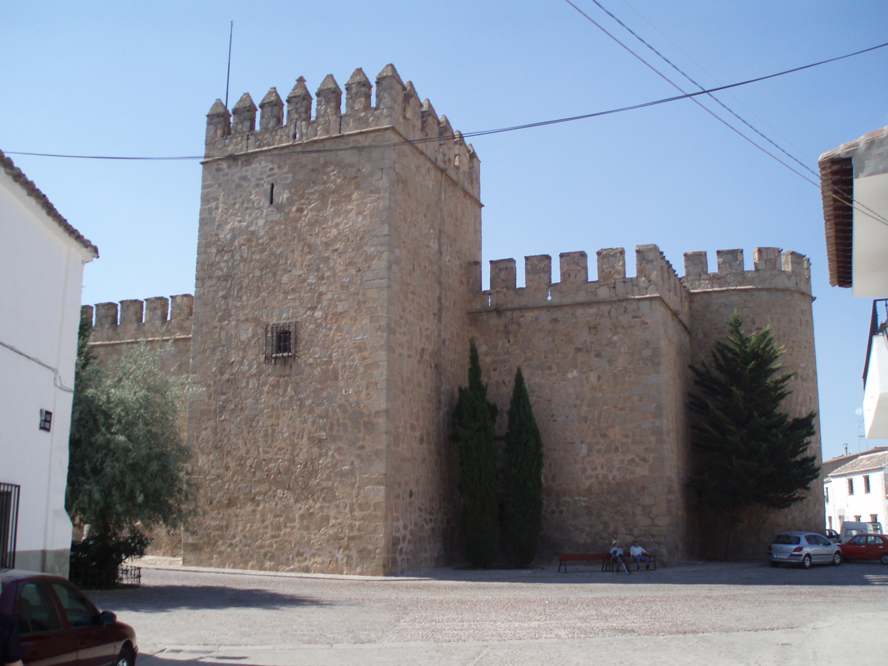 Castle of Orgaz, in province of Toledo. (Spain).